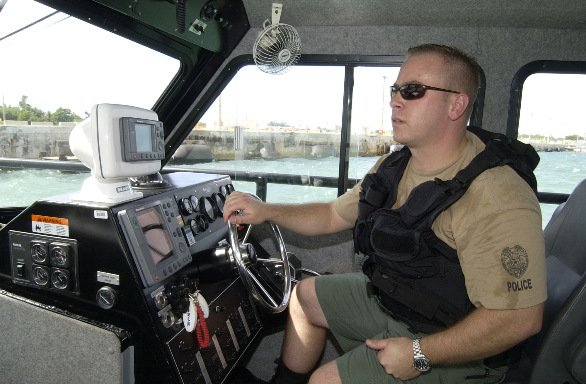 Apra Harbor, Guam (Jan. 10, 2005) - Chief Master-At-Arms Jake M. Englander, from Belington, Wash., pilots a Naval Base Guam Harbor Patrol boat around Apra Harbor. The Harbor Patrol, part of Naval Base Guam's Naval Security Force, utilizes 28-foot Dauntless "SeaArk" high-speed boats to provide security throughout harbor operations. U.S. Navy photo by Photographer's Mate 2nd Class Nathanael T. Miller (RELEASED)